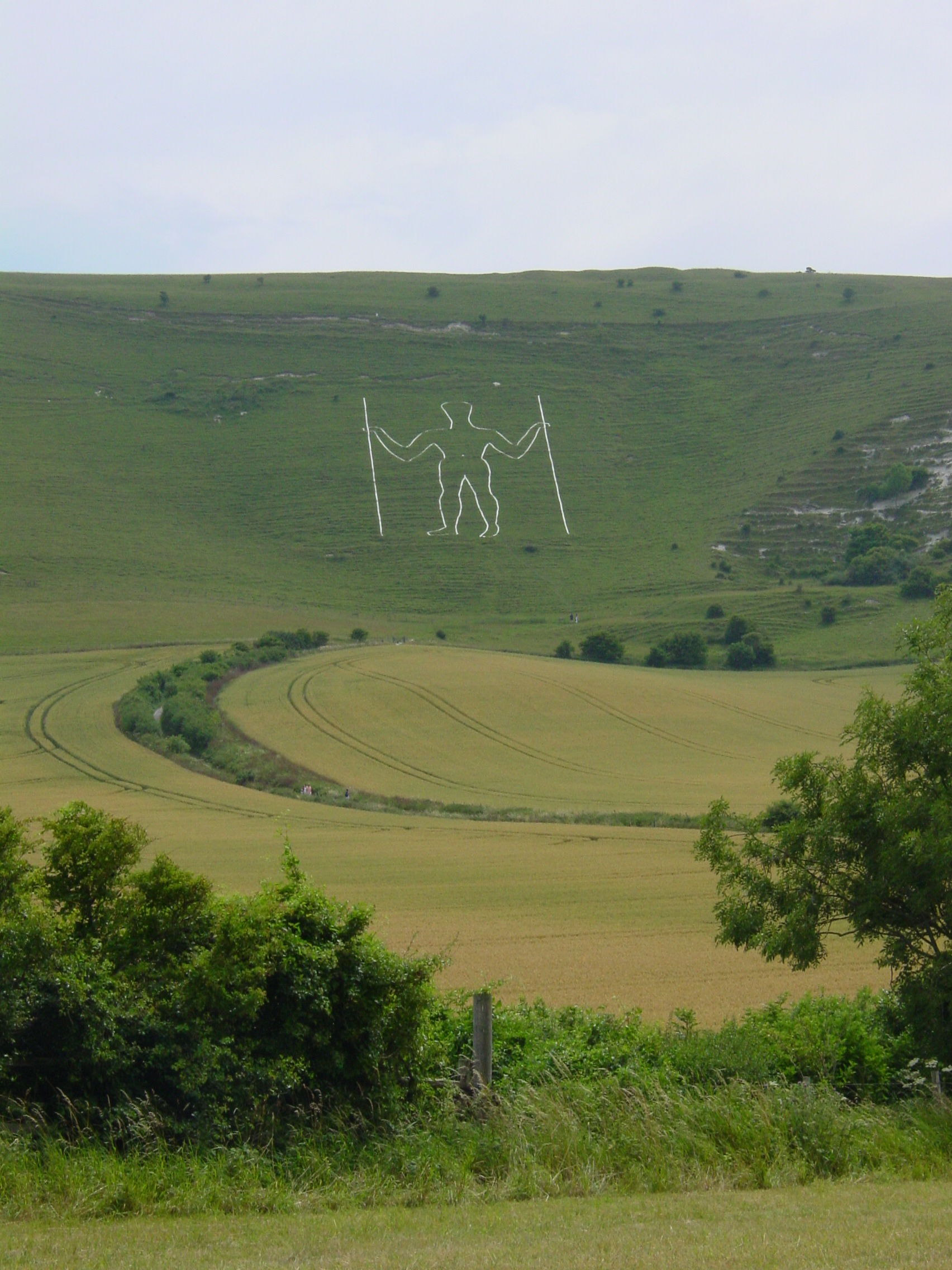 A view of the Long Man of Wilmington from the car park